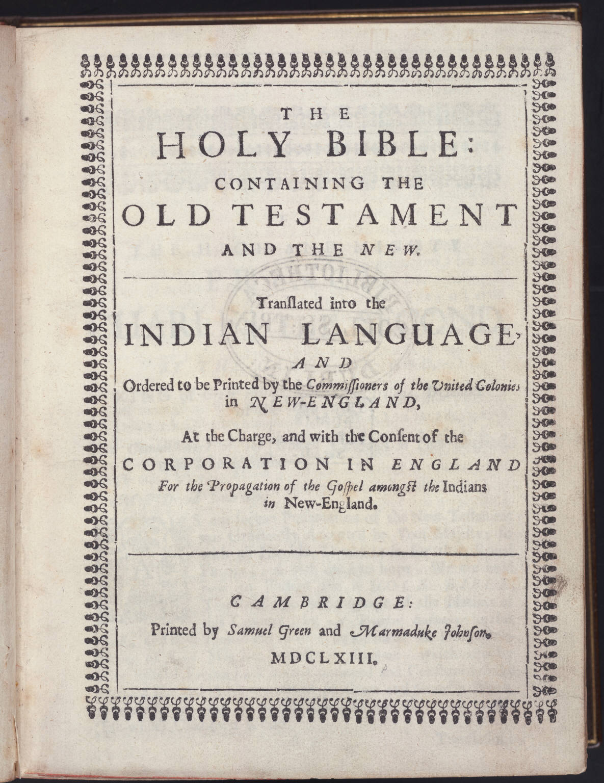 "The Holy Bible : containing the Old Testament and the New. / Translated into the Indian language, and ordered to be printed by the Commissioners of the United Colonies in New-England, at the charge, and with the consent of the Corporation in England for the Propagation of the Gospel amongst the Indians in New-England." Title page, 19 cm. Monroe Wakeman and Holman Loan Collection of the Pequot Library Association, on deposit in the Beinecke Rare Book and Manuscript Library, Yale University, New Haven, Conn.